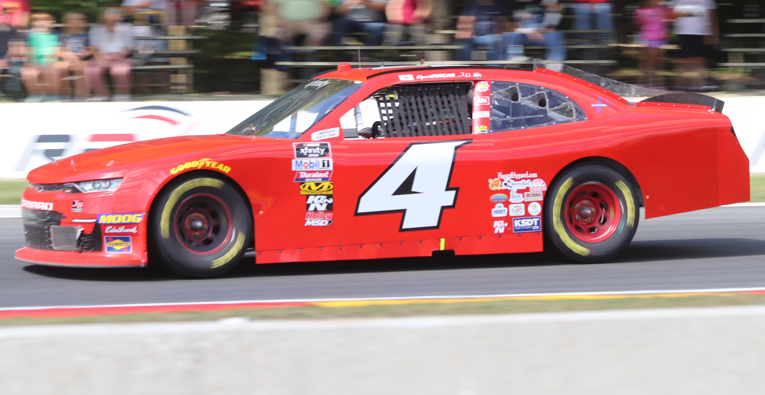 The #4 Chevrolet Camaro of Ryan Vargas at the NASCAR CTECH 180.